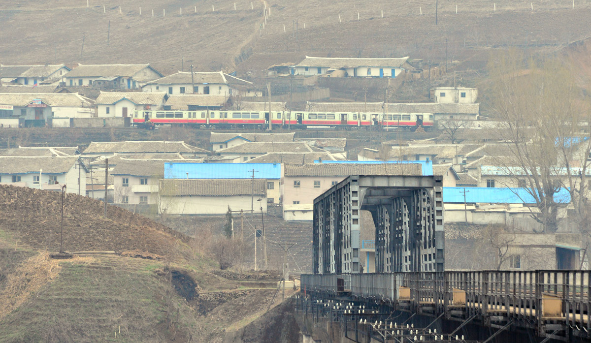 巡道工出品 photo by Xundaogong——淘汰的柏林地铁在满浦站 eliminate metro in Manpo station，photoed in Ji‘an China